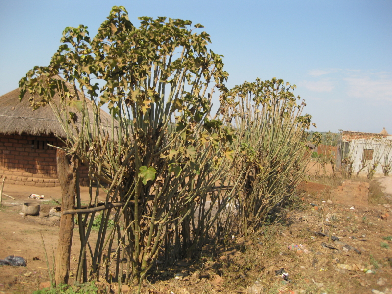 A live fence made of Jatropha curcas in Nhacafura in Tambara district of Mozambique.